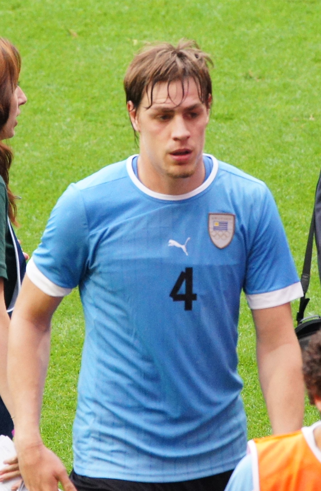 Sebastian Coates at 2012 Summer Olympics.